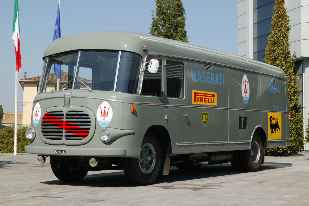 Fiat 612/RN transporter of Maserati Racing Team.